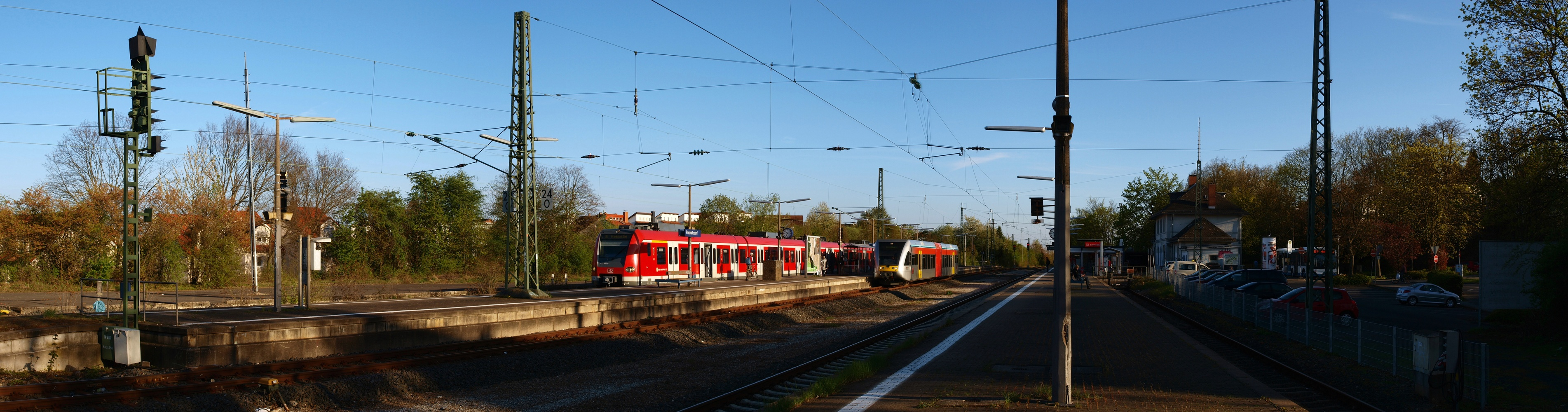 Tracks 5, 4, 2 and 1, station building and bus stop of the railway station Friedrichsdorf